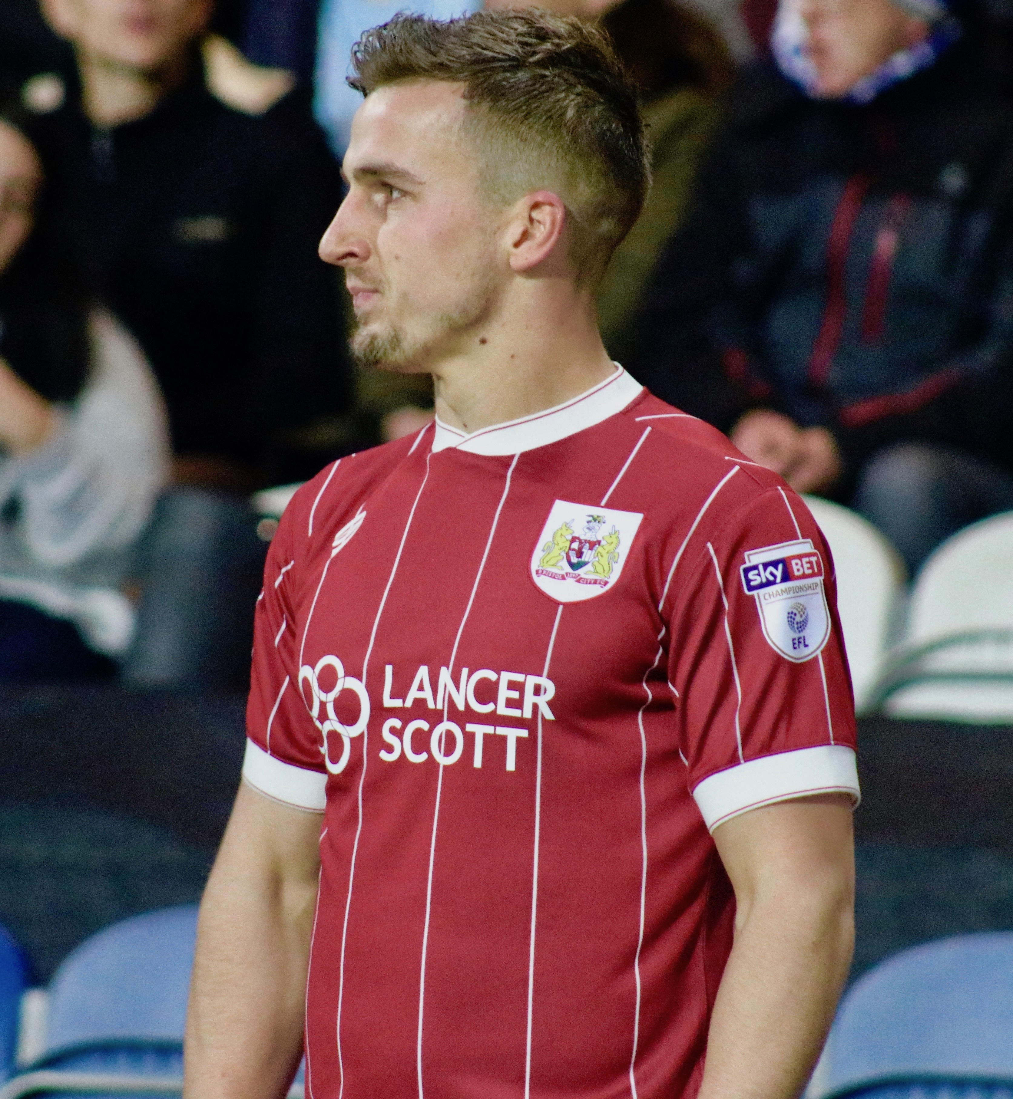 Bryan in action